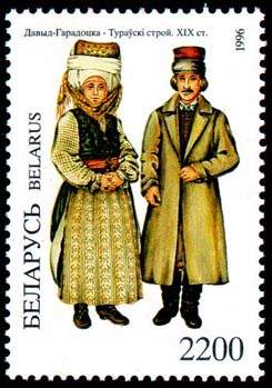 Davyd-Horodotsko-Turavsky Stroj stamp